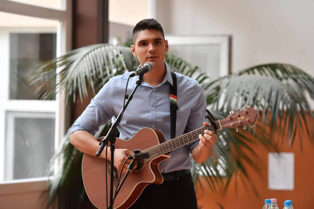 Laszlo Kiss